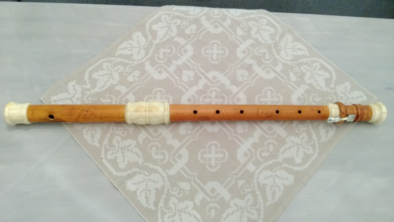 Baroque flute in boxwood (Buxus sempervirens). Replica by Mats Halfvares after an original by P. Bressan around 1700.